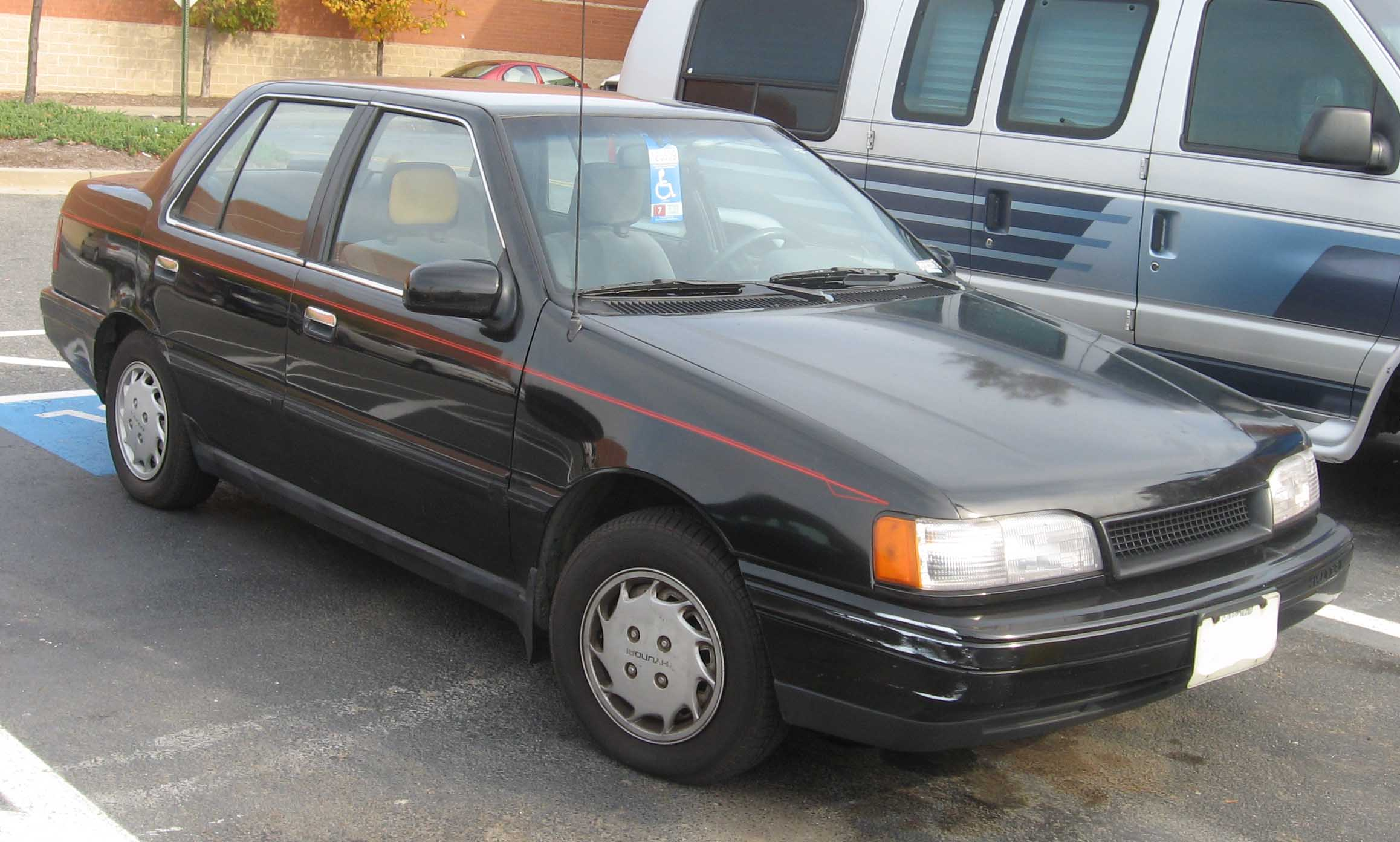 Hyundai Excel photographed in Waldorf, Maryland, USA.